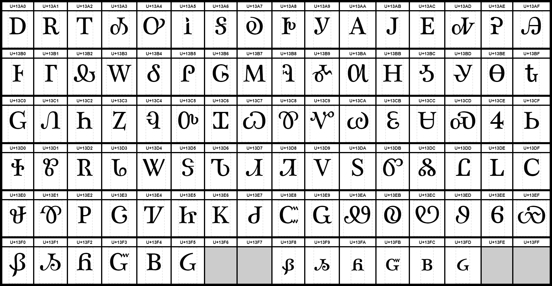 Symbol chart for the Cherokee Unicode block. The codes U+13F5 to U+13FF, shown crossed out, are not mapped to any symbol.